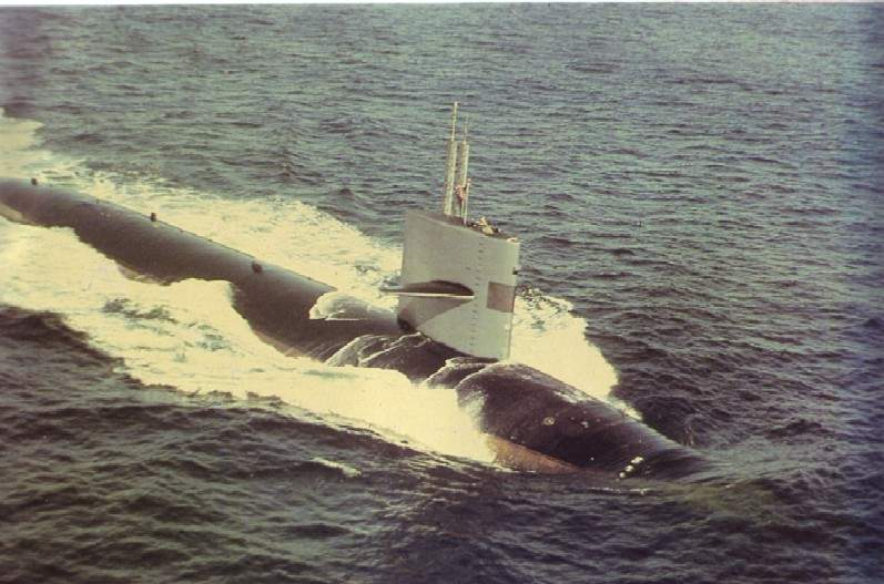 United States Navy attack submarine , possibly during her sea trials off the coast of New England